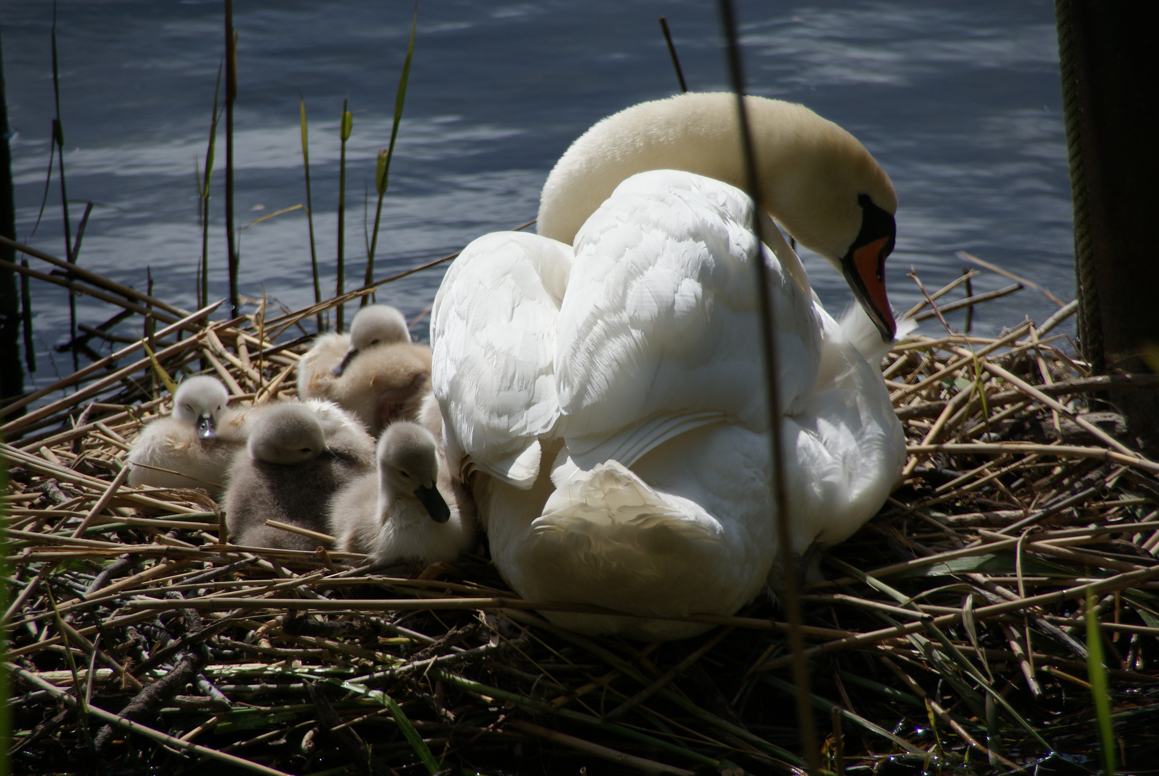 Mute Swans, Lake Tegel, Berlin